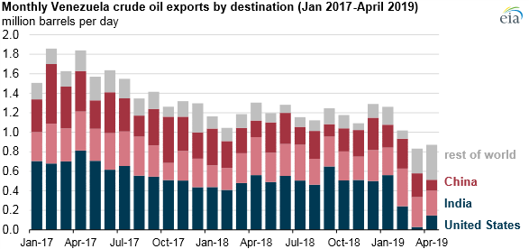 In April 2019, Venezuela's crude oil production averaged 830,000 barrels per day (b/d), down from 1.2 million b/d at the beginning of the year, according to EIA’s May 2019 Short-Term Energy Outlook. May 20, 2019